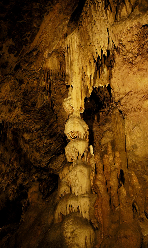 Dripstones in István Cave, Lillafüred, Bükk Mountains